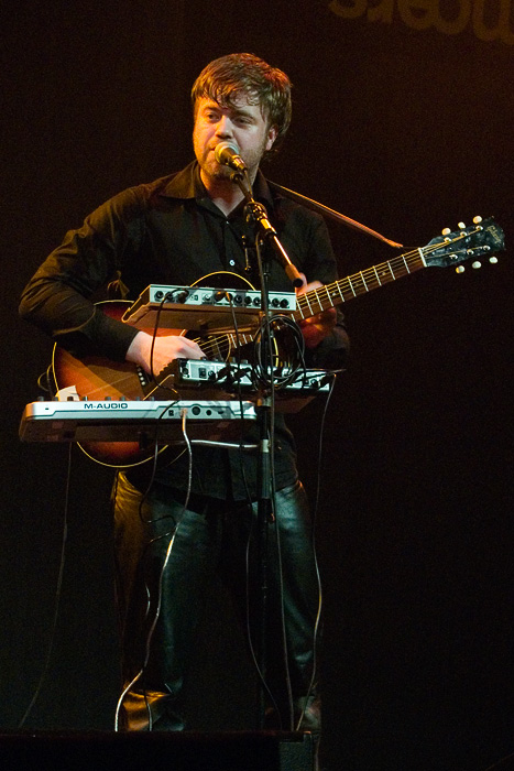 Mugison at moers festival 2006 own photo, june 3, 2006- photo: nomo/michael hoefner